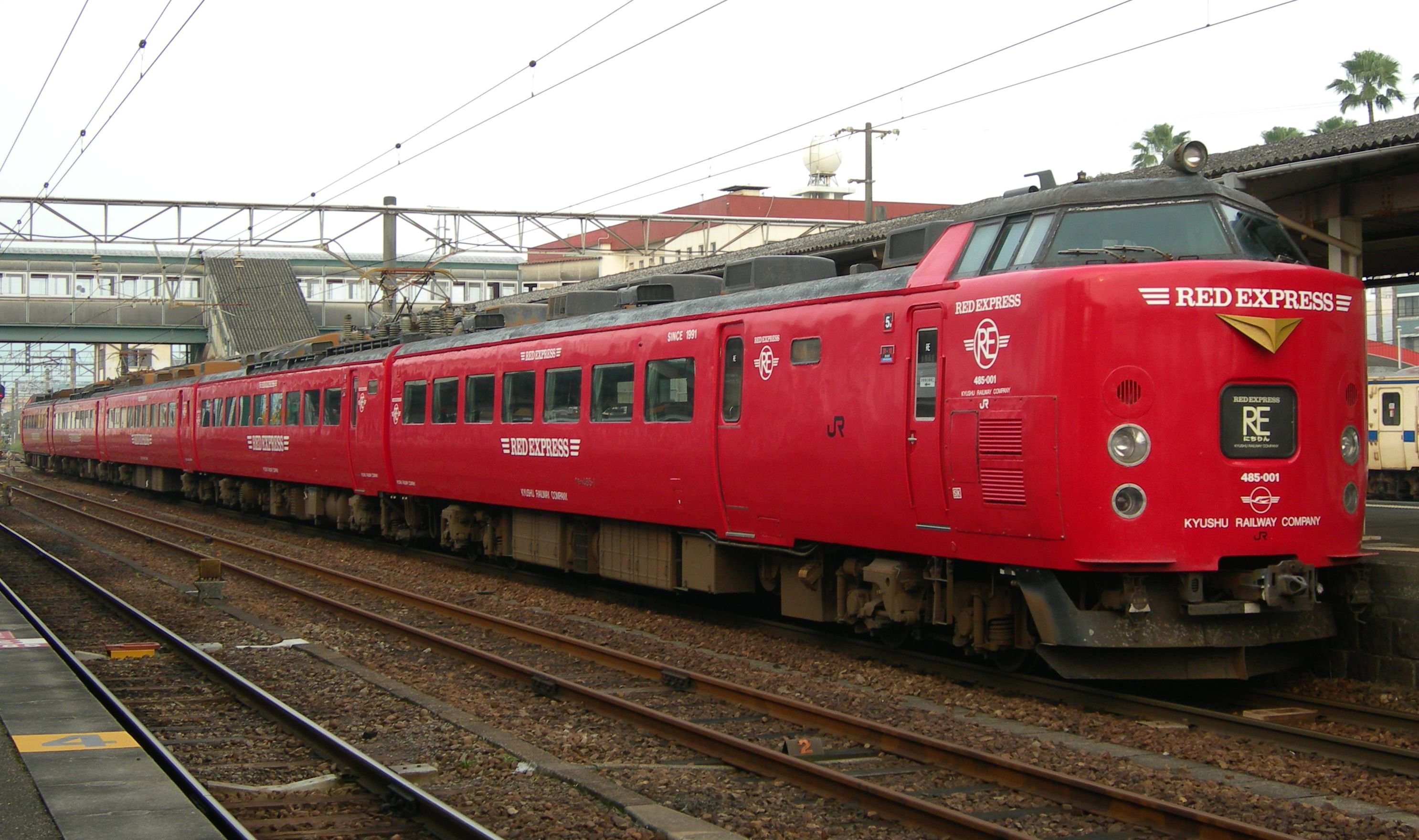 A JR Kyushu 485 series EMU at Minami-Miyazaki Station on a Nichirin service